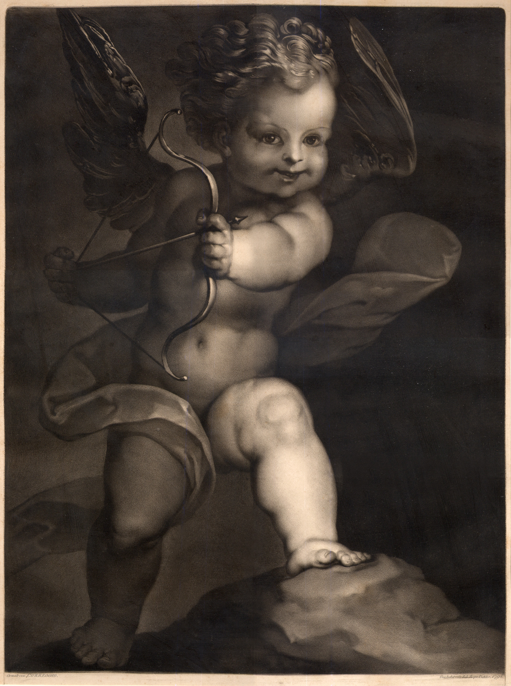 Mezzotint by Johann Peter Pichler after Antonio da Correggio